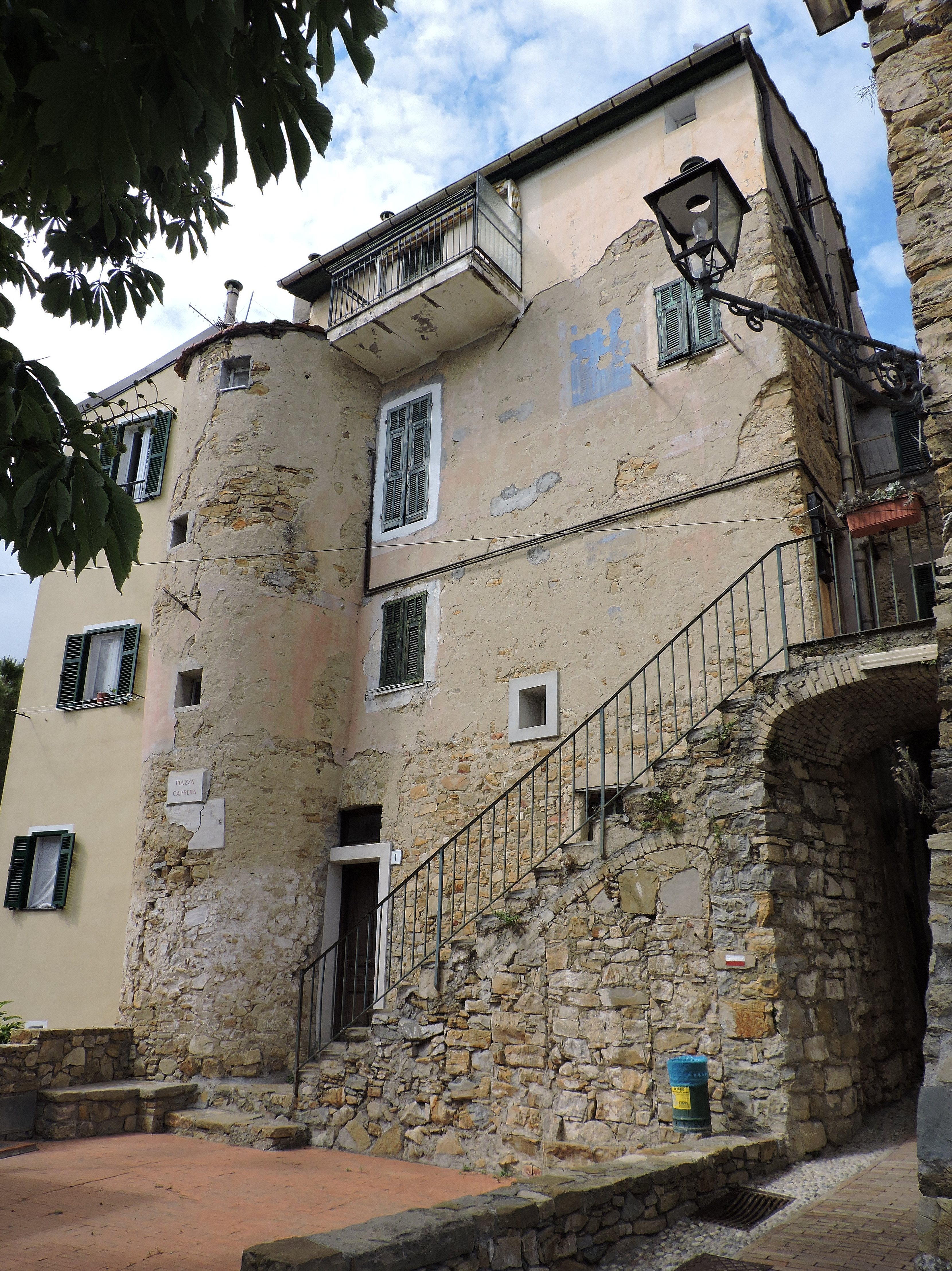 Sasso di Bordighera (IM, Italy): ancient tower-house